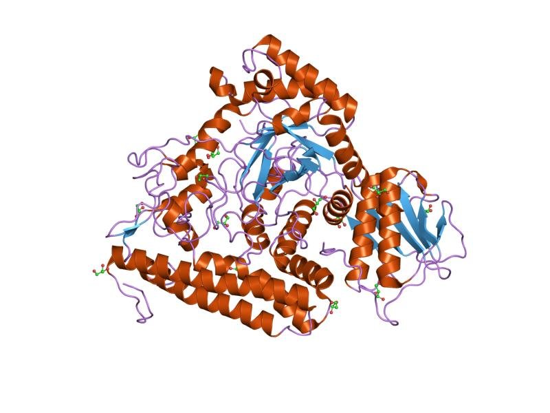 Cartoon representation of the molecular structure of protein registered with 1k9d code.